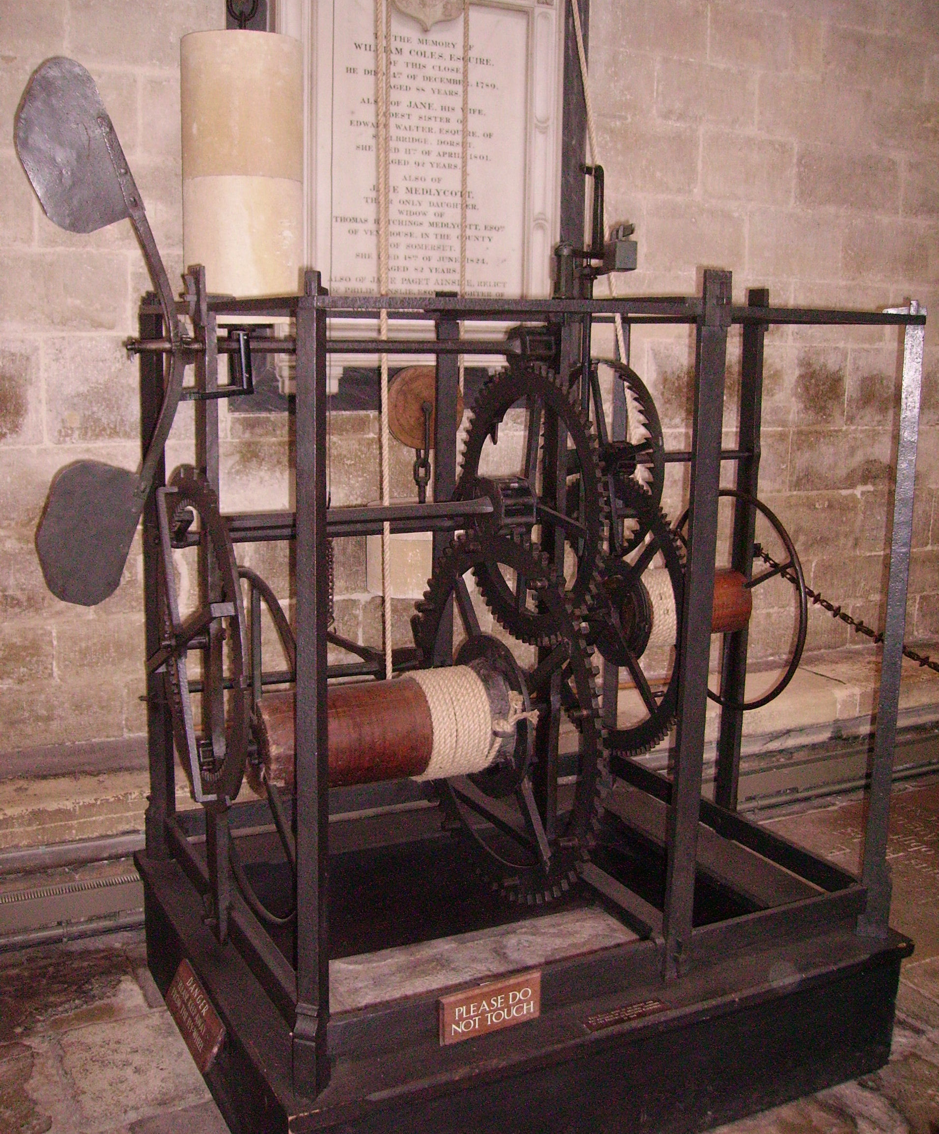 Mechanism of Salisbury cathedral clock at Salisbury Cathedral, Salisbury, UK. Built sometime around 1386, it is one of the oldest mechanical clocks in the world. It was restored in 1956 and is in working condition, and is one of the oldest working clocks in existence. It had no clock face; it was mounted in a bell tower, and it's function was to ring the canonical hours on a bell, to call the community to prayer.